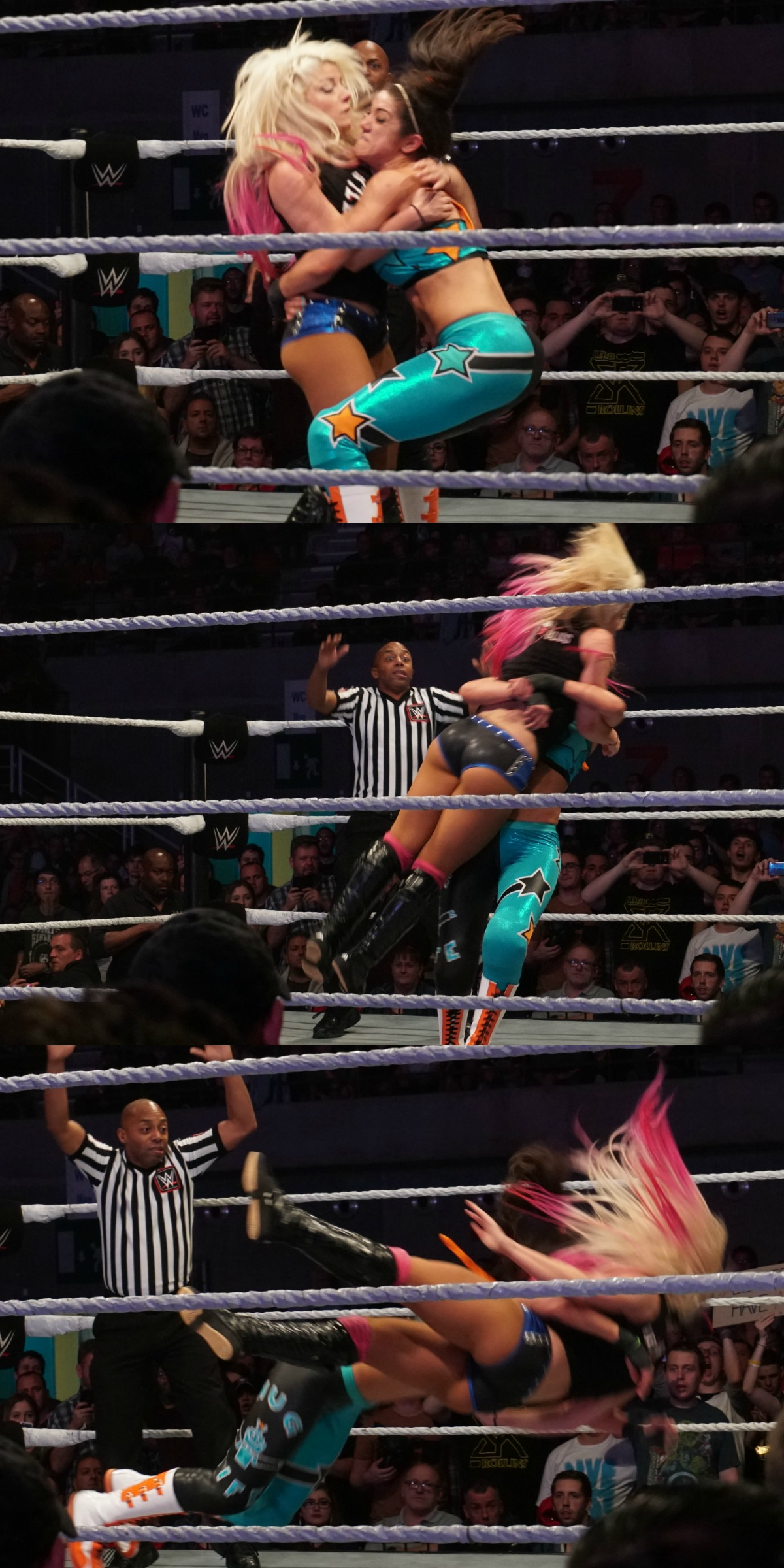 Bayley performing her finishing maneuver the "Bayley-to-belly suplex" on Alexa Bliss during a WWE live event in May 12, 2017.